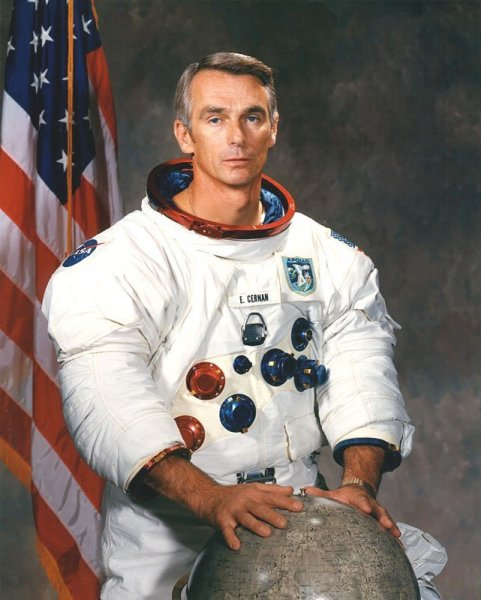 Portrait of Astronaut Eugene A. Cernan in spacesuit with lunar globe on table in front of him.